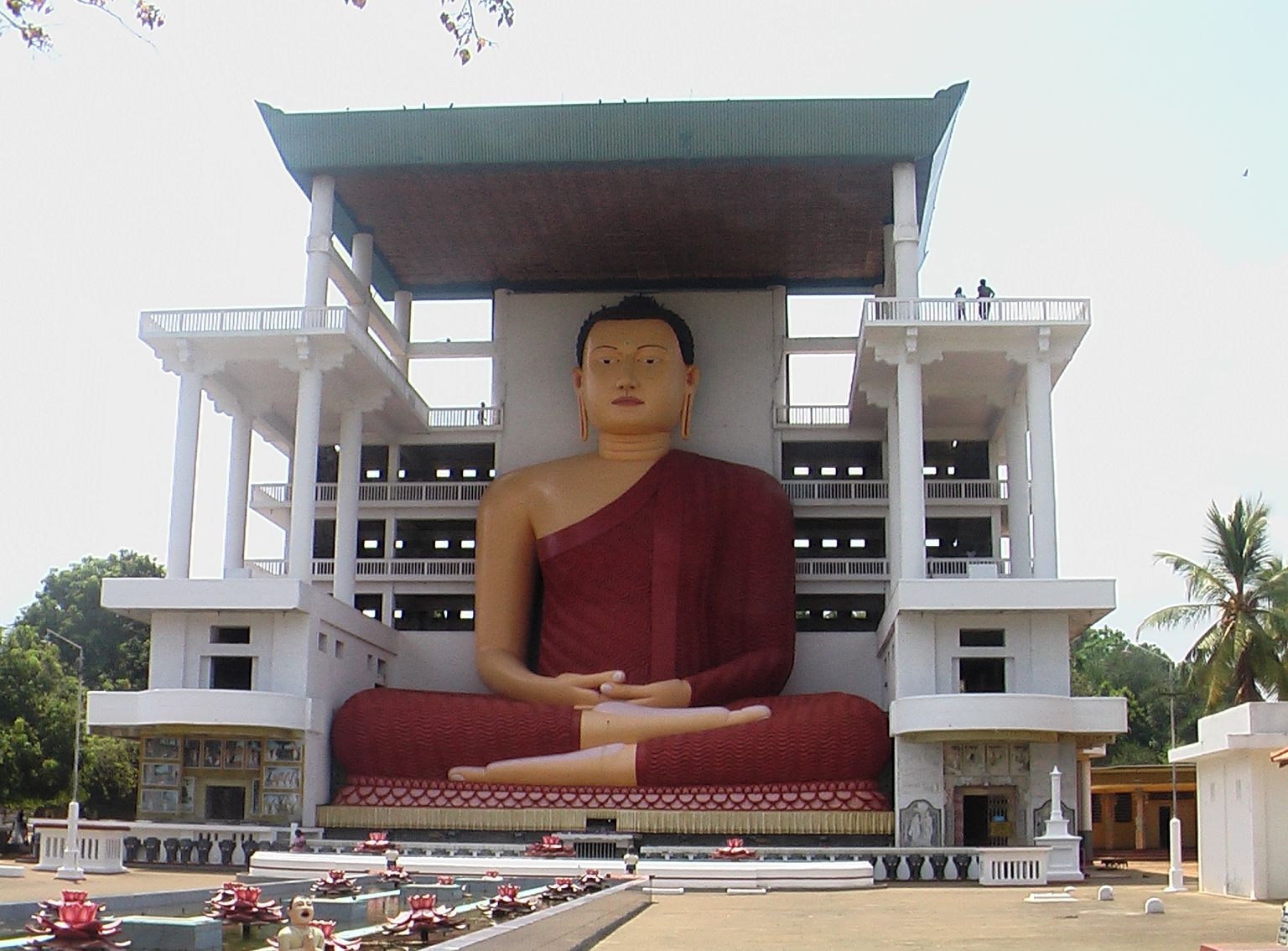 Giant Buddha statue at Weherahena temple near Matara, Sri Lanka.